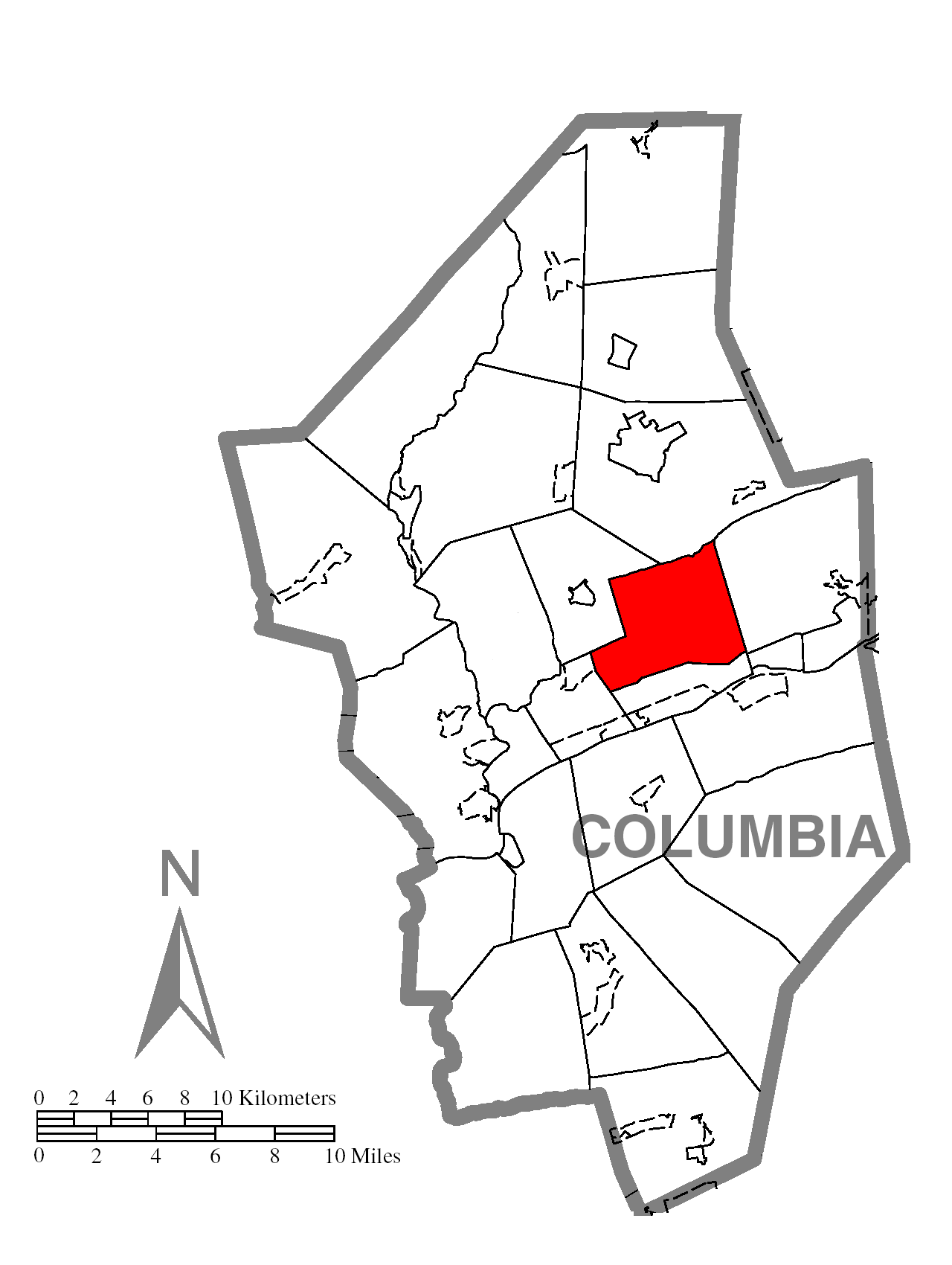 A map of Columbia County showing North Centre Township, Pennsylvania (alternate) highlighted on the map.